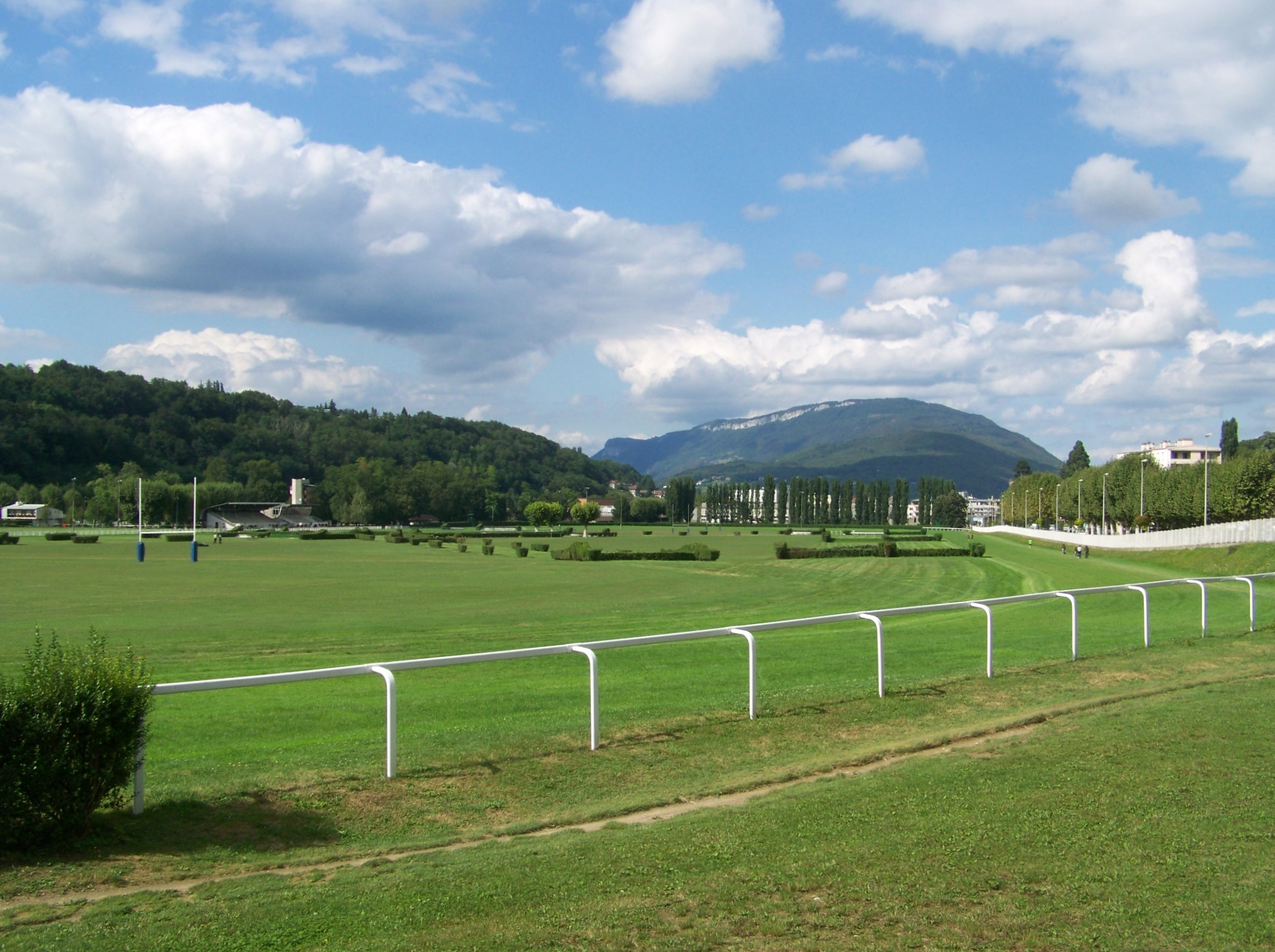 Sight of hippodrome de Marlioz racecourse also known as Hippodrome d’Aix-les-Bains in city of Aix-les-Bains, Savoie, France. Unique hippodrome in French Alps.